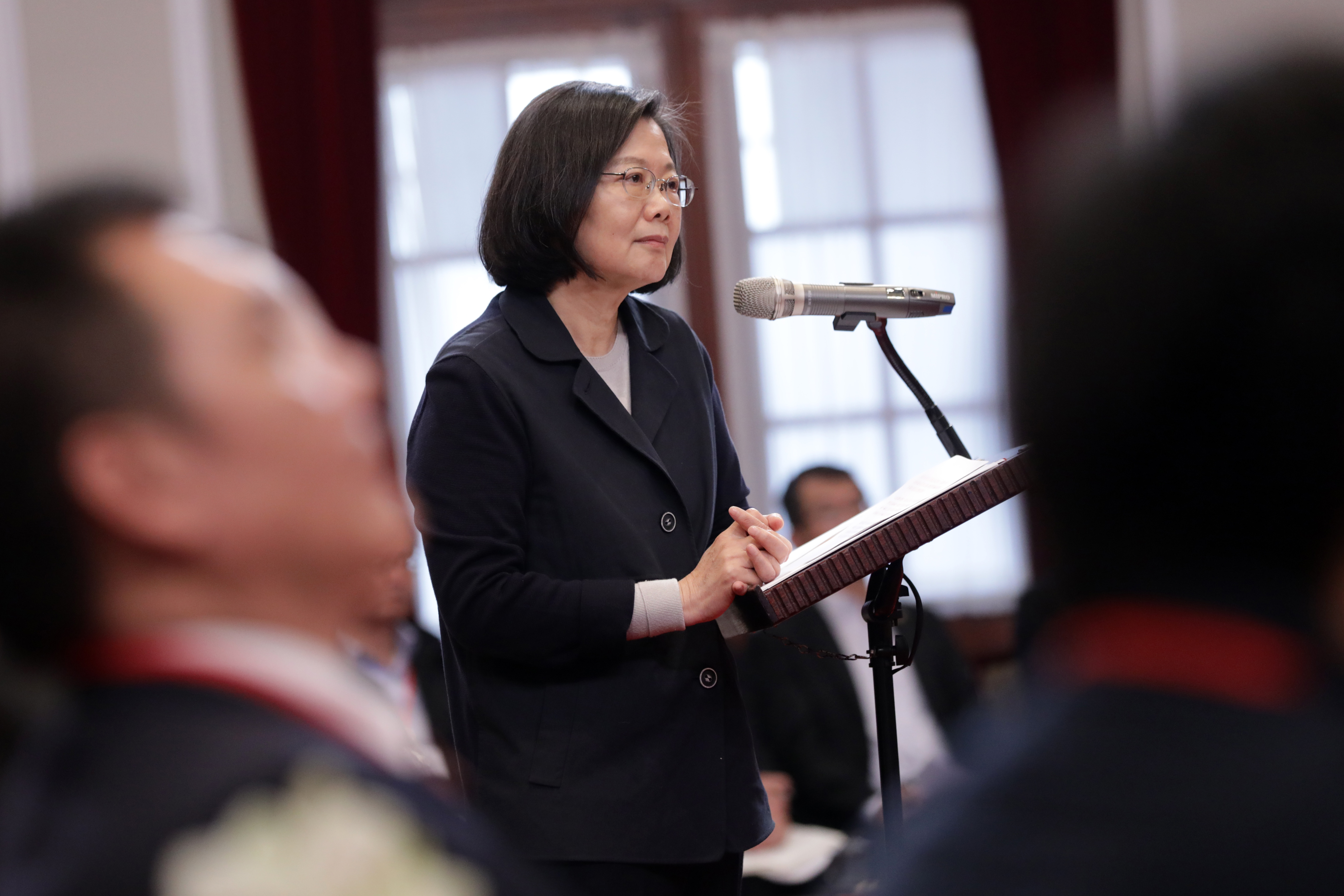 Official Photo by Simon Liu / Office of the President